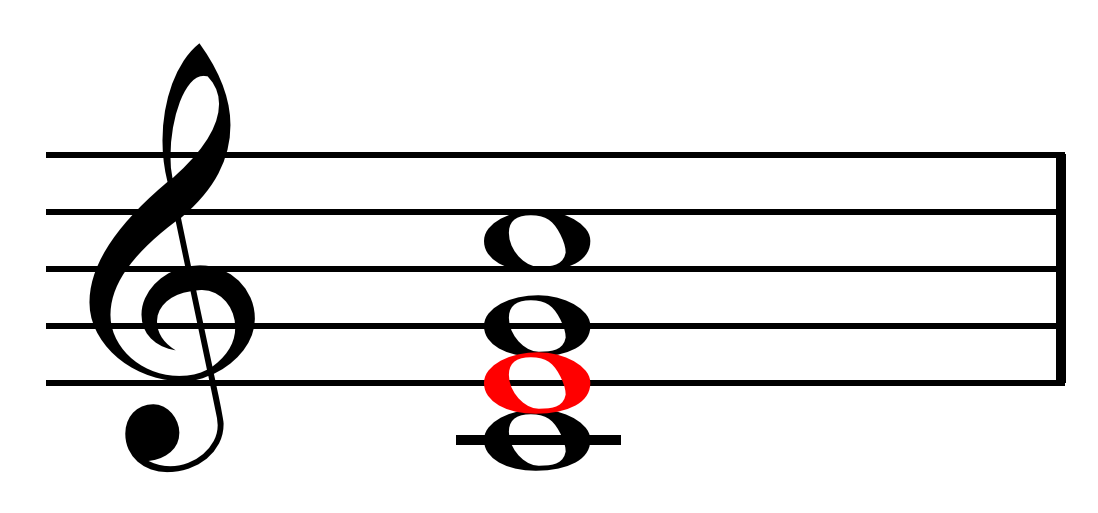 Third of a major chord on C.